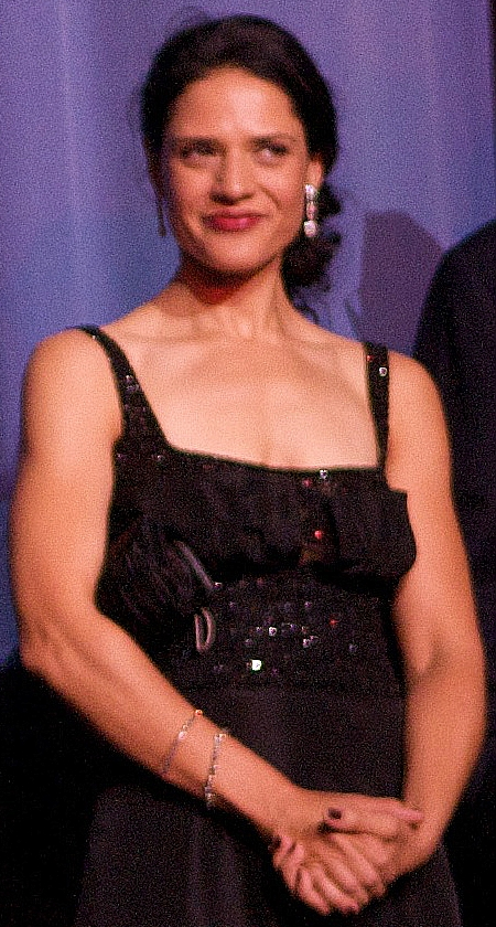 American actress Monique Gabriela Curnen in July 2008.